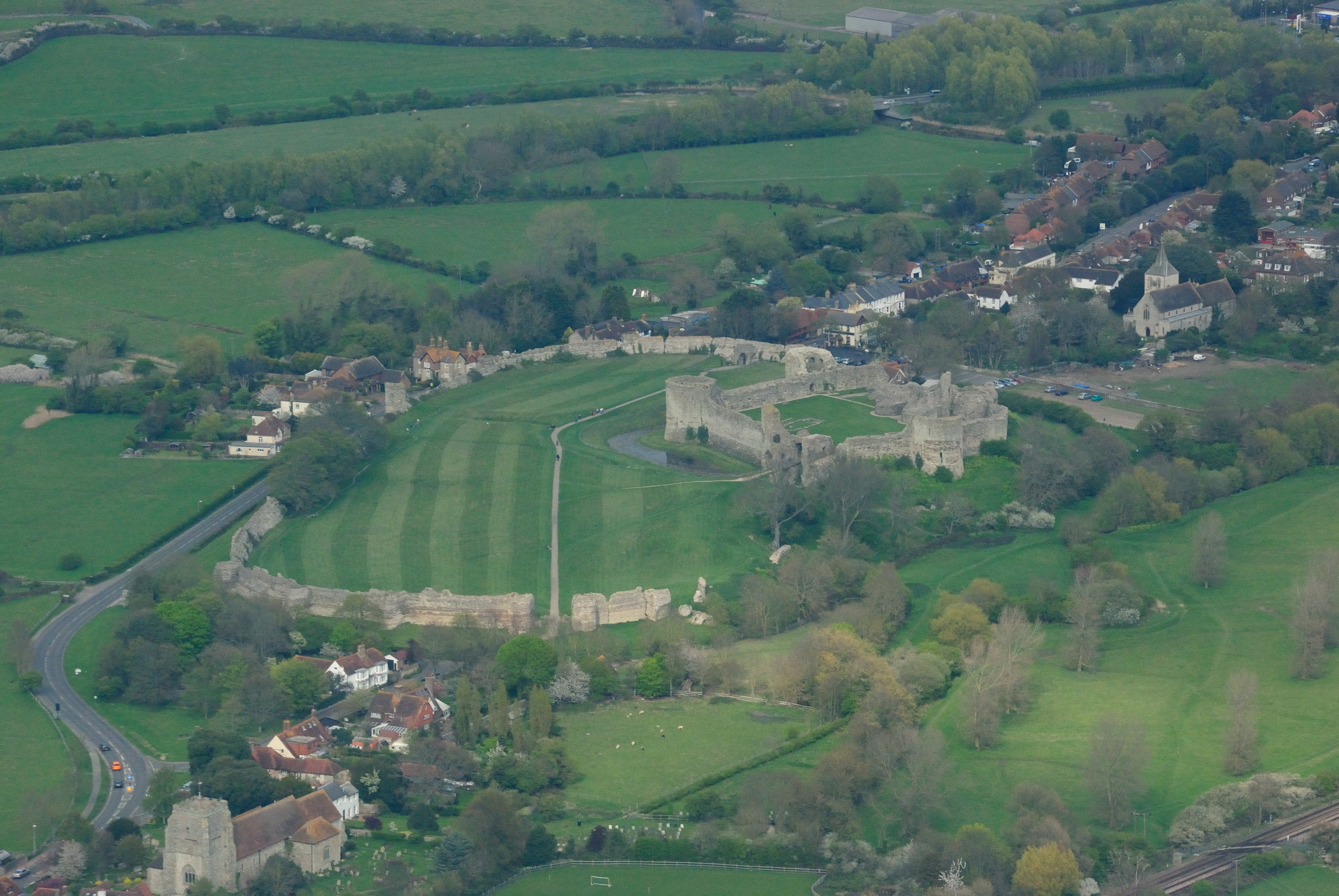 Aerial photograph of Pevensey castle and surroundings, England. The church at the bottom of the picture, just outside the Roman wall, is St.Mary's at Westham. To the right of the castle is St.Nicholas' church at Pevensey. Nikon D60 f=116mm f/9 at 1/1250s ISO 800. Processed using Nikon ViewNX 1.5.2.